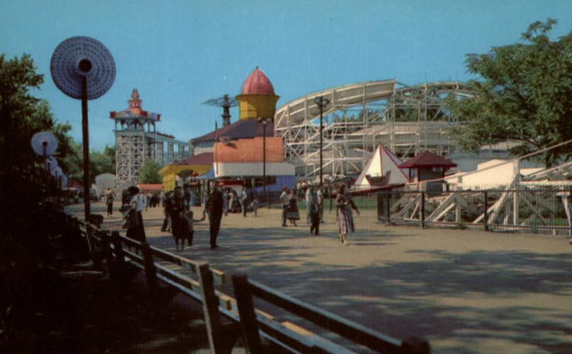 Postcard photo of Flying Turns roller coaster at Riverview Park, Chicago.